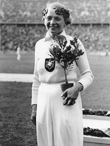 Director Tilly Fleischer